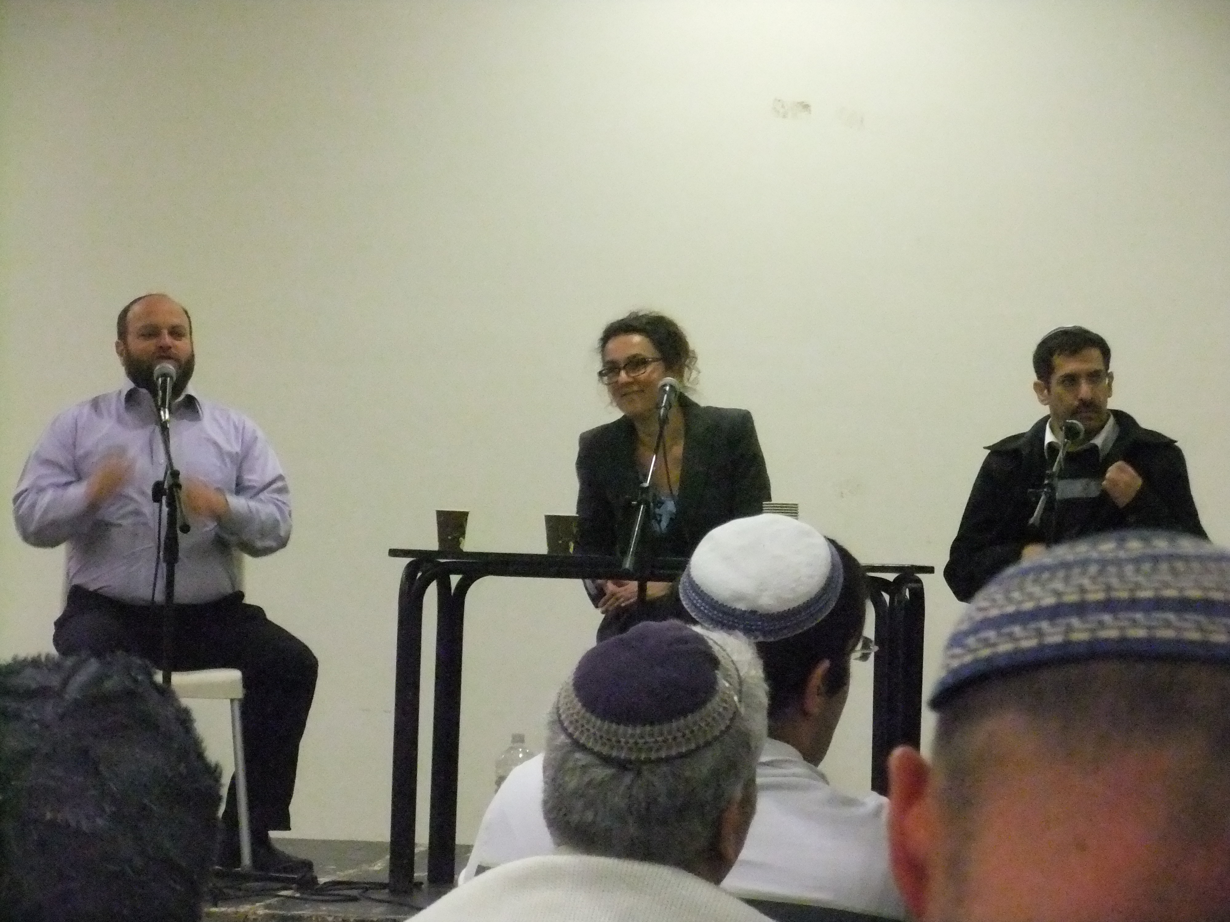 Participants of the Hamila Haachrona radio program in Eli.